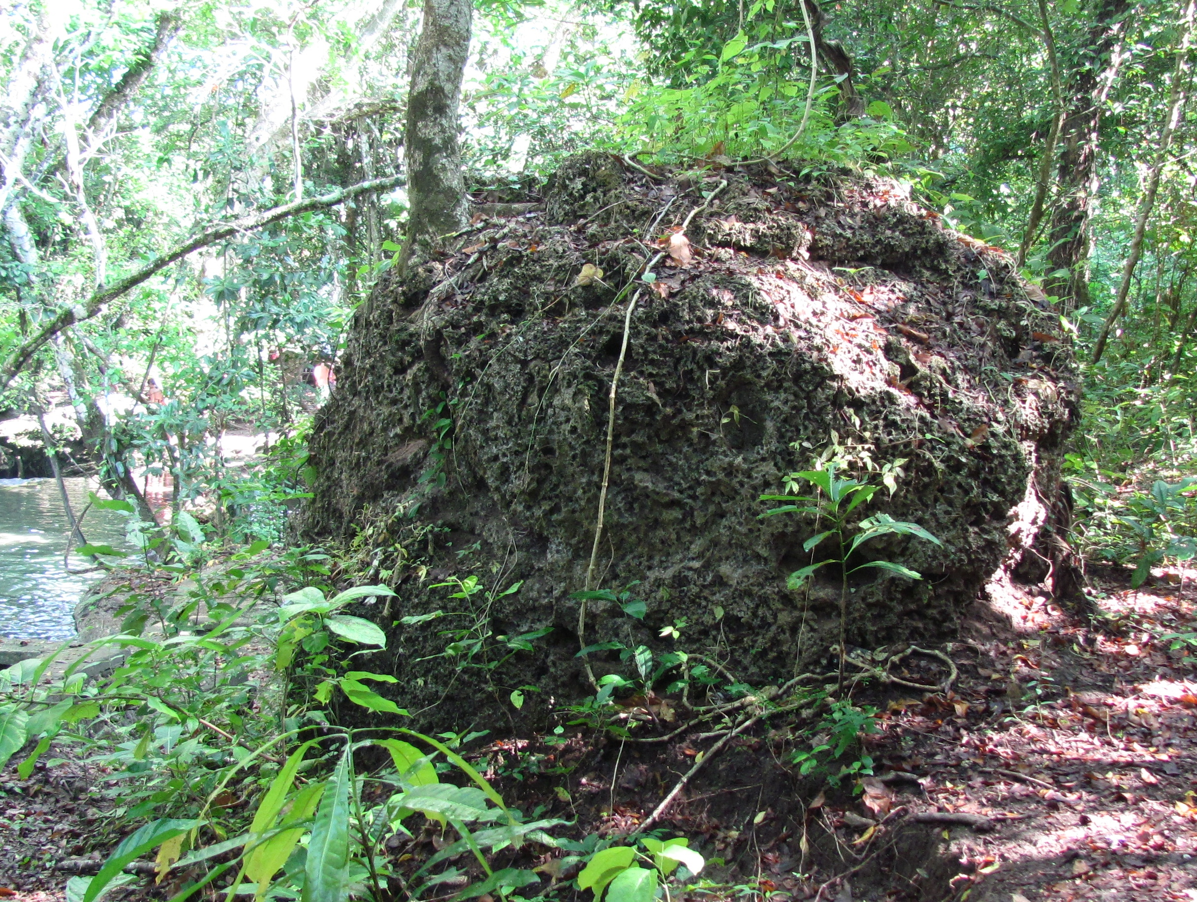 Coral rock in the jungle near Labuan Haji, Moyo Island, Inoonesia